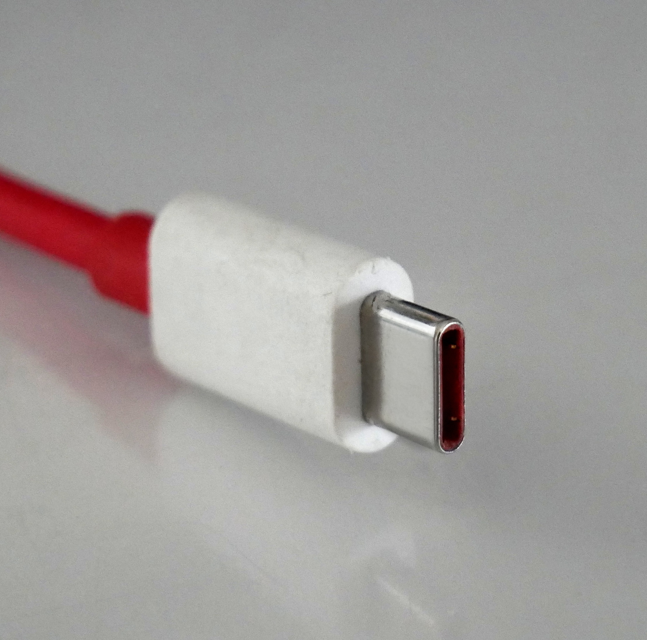 USB Type-C plug.